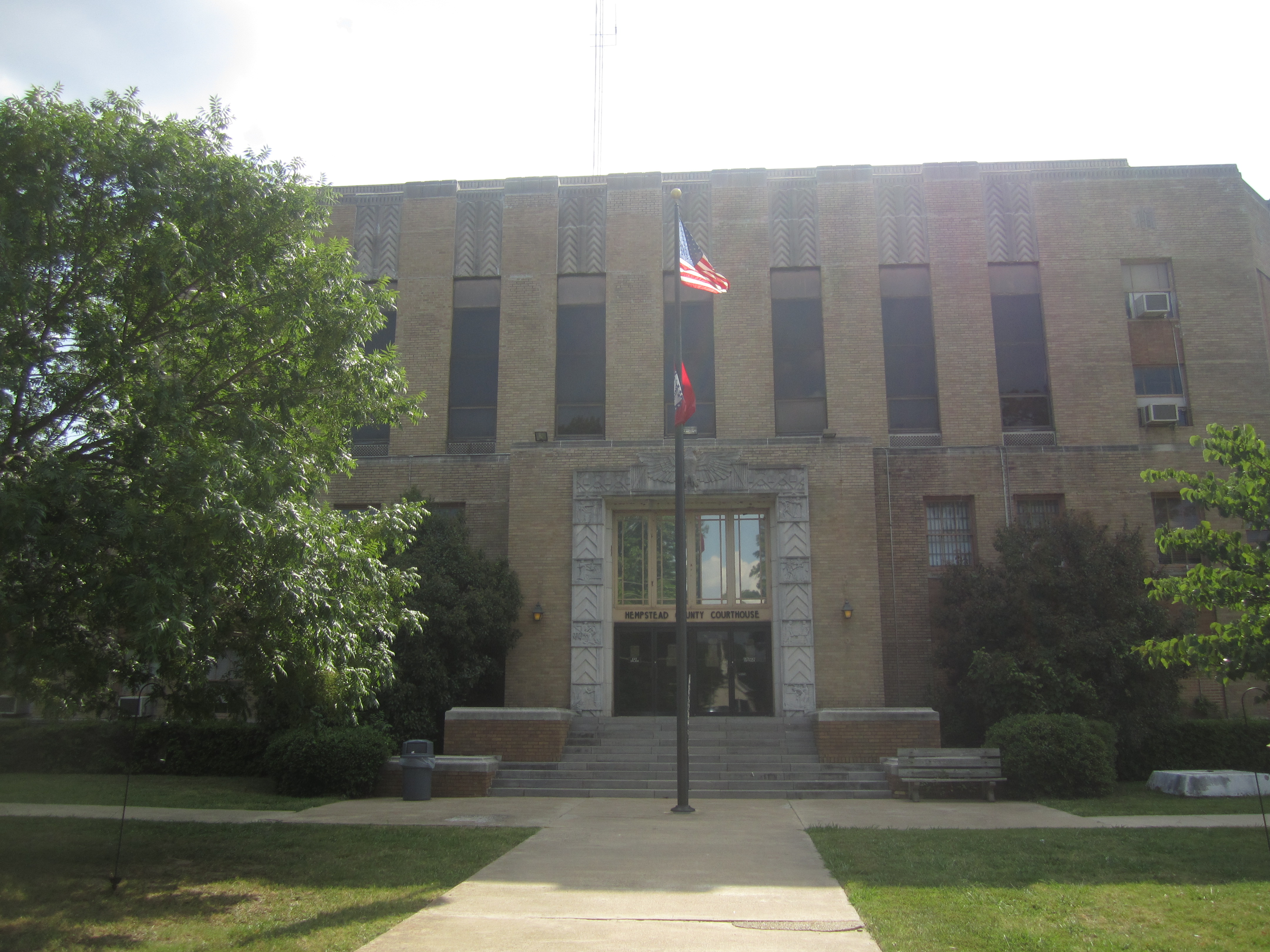 I took photo with Canon camera on June 9, 2012, of Hempstead County Courthouse in Hope, AR.